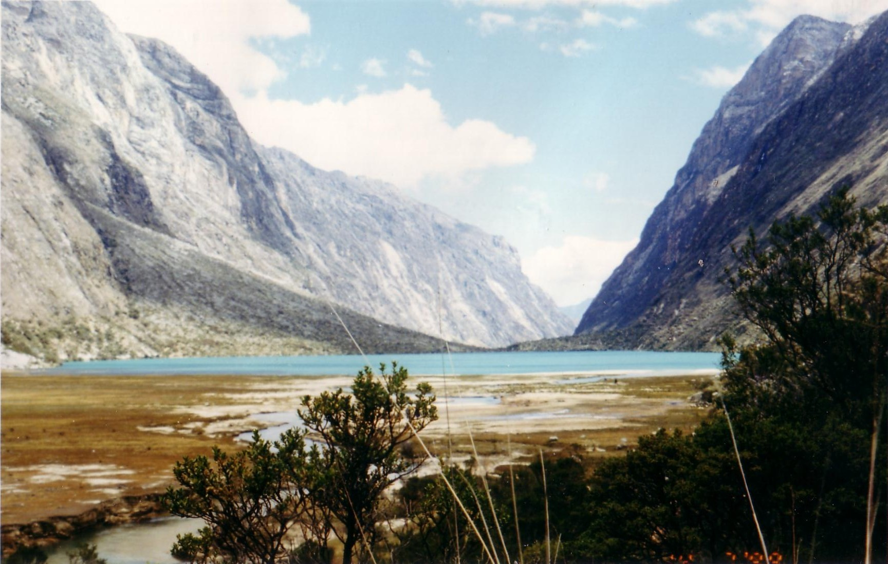 views of PN Huascaran